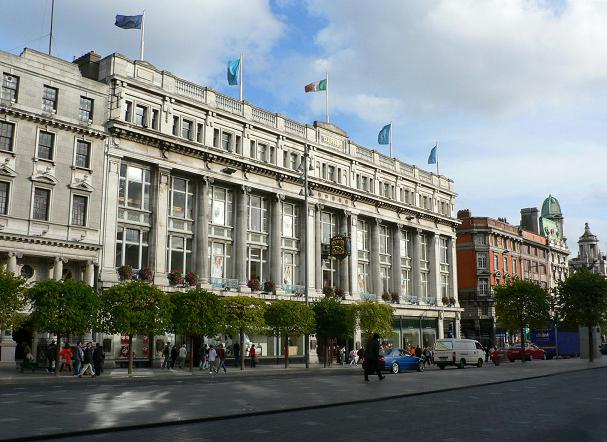 Took image personally in October 2006